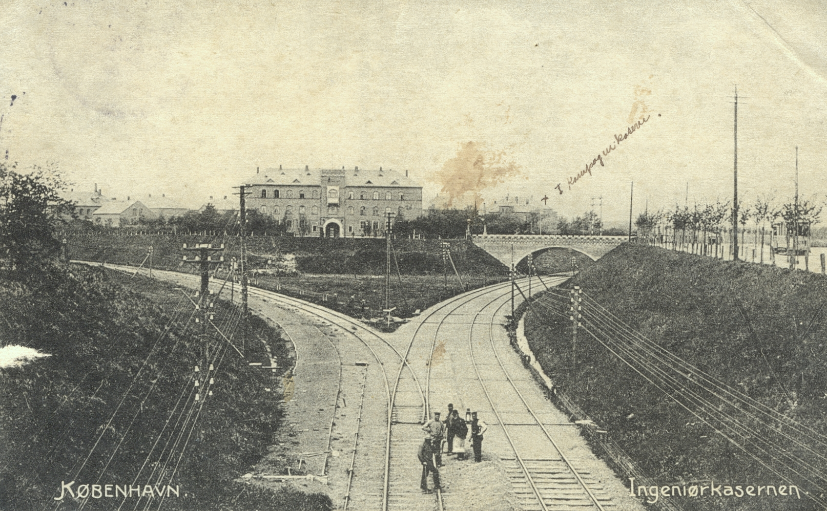 Barracks in the north of Copenhagen, Denmark. The railway lines are now part of the S-train network of the city